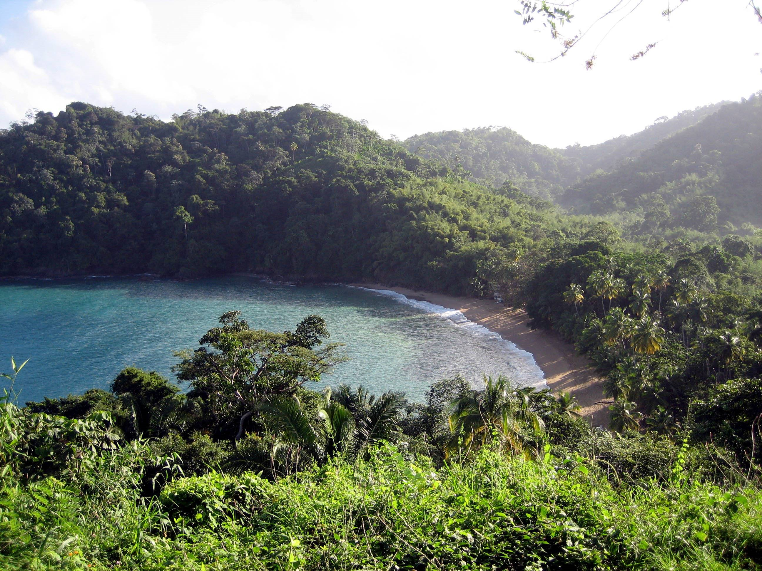 Photo of Englishman's Bay, Trinidad & Tobago, taken from a coastal road on the island of Tobago in December 2008.